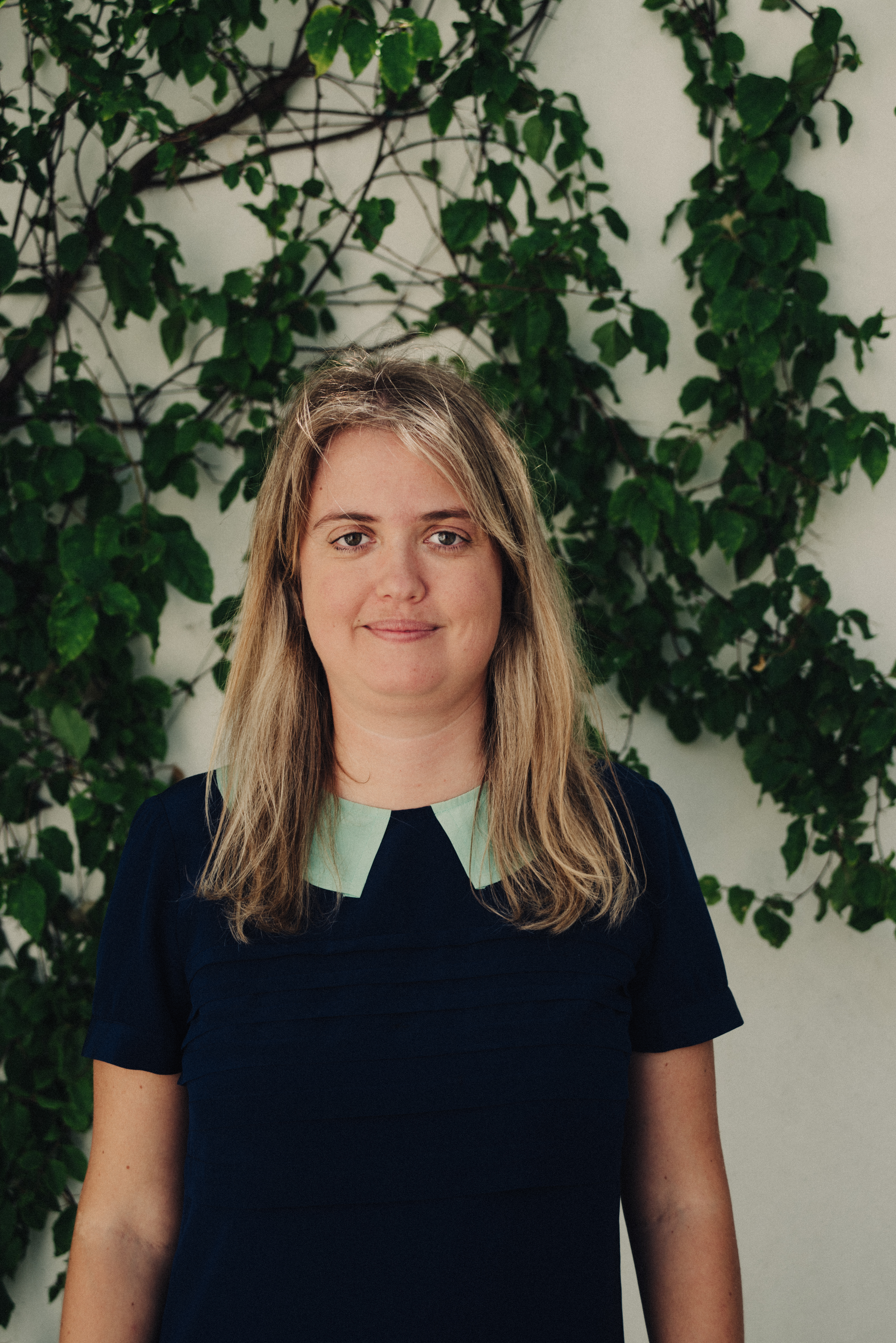 Elena Favilli is the co-author of Good Night Stories for Rebel Girls